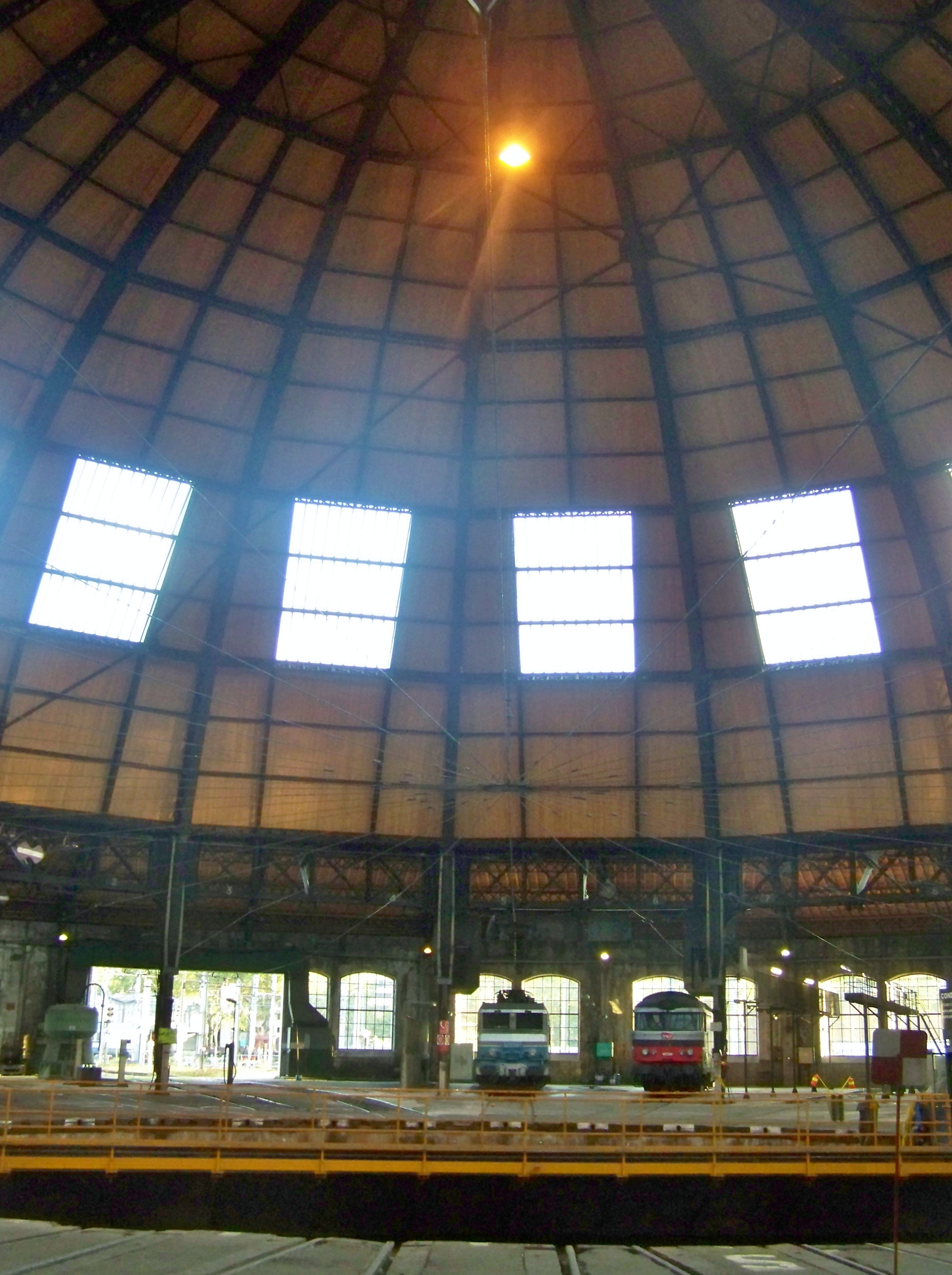 Inside sight of rotonde ferroviaire de Chambéry (Chambérys railway rotunda) in Chambéry, Savoie, France.